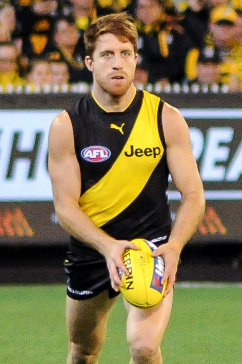 Reece Conca during the AFL round two match between Richmond and Collingwood on 30 March 2017 at the Melbourne Cricket Ground in Melbourne, Victoria.